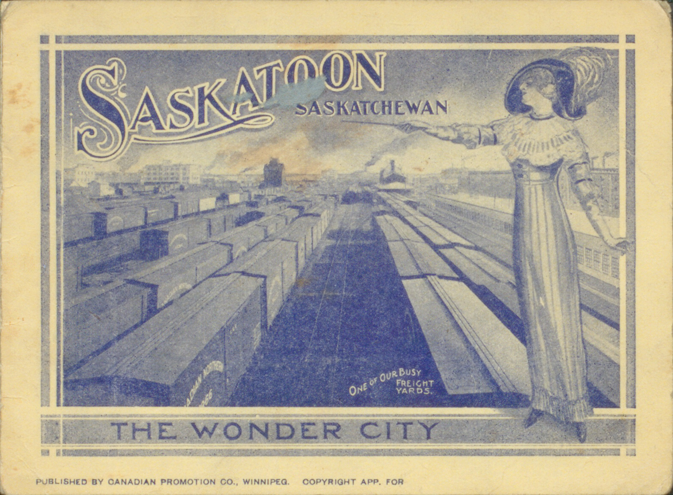 Small booklet depicting a woman standing over a busy trainyard in Saskatoon